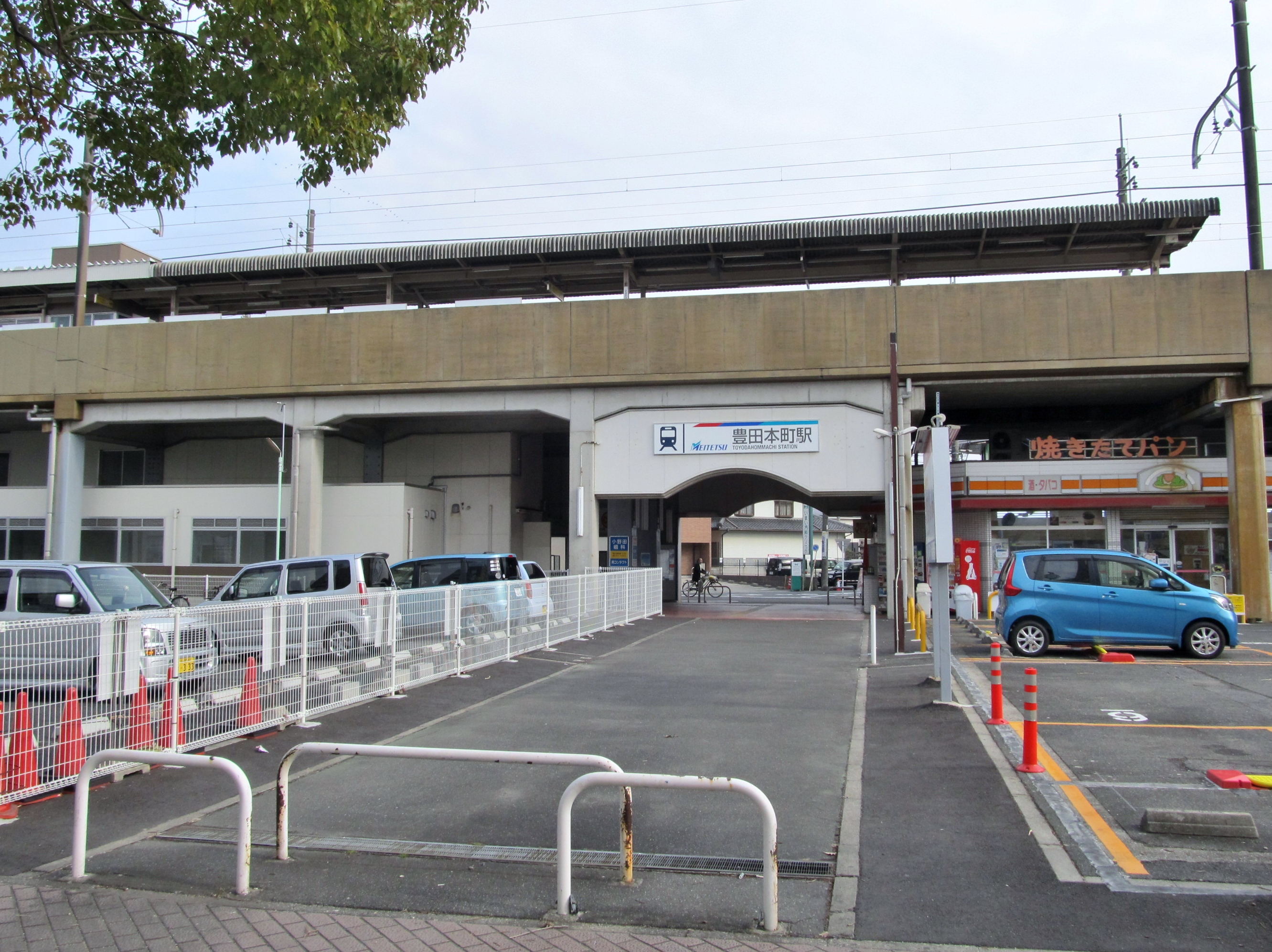 Nagoya Railroad Tokoname Line Toyodahommachi Station Building